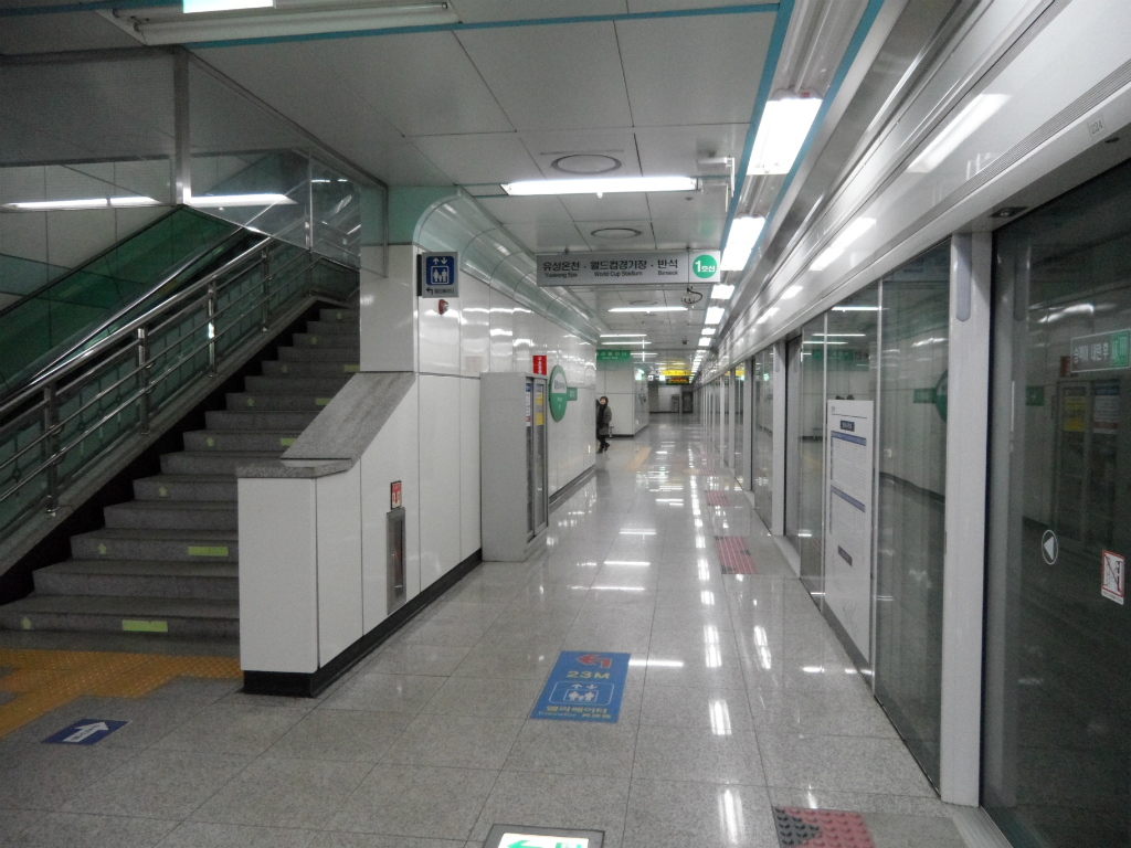 Platform of Wolpyeong Station